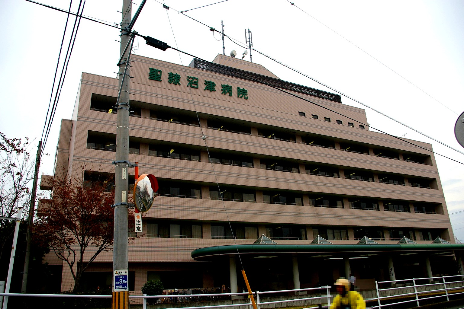 It tooken by me on Jun, 2008 in Numazu Shizuoka Japan.